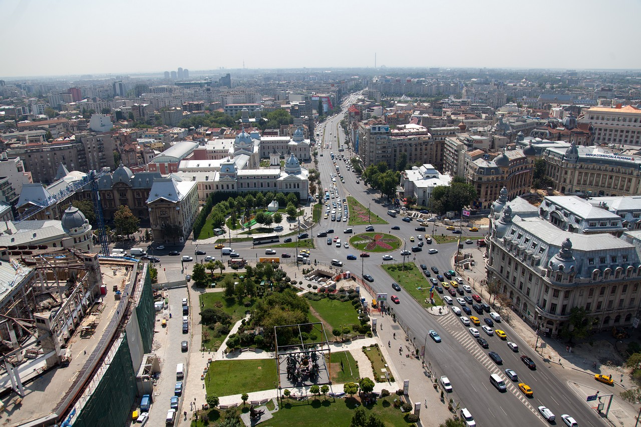 Bucharest